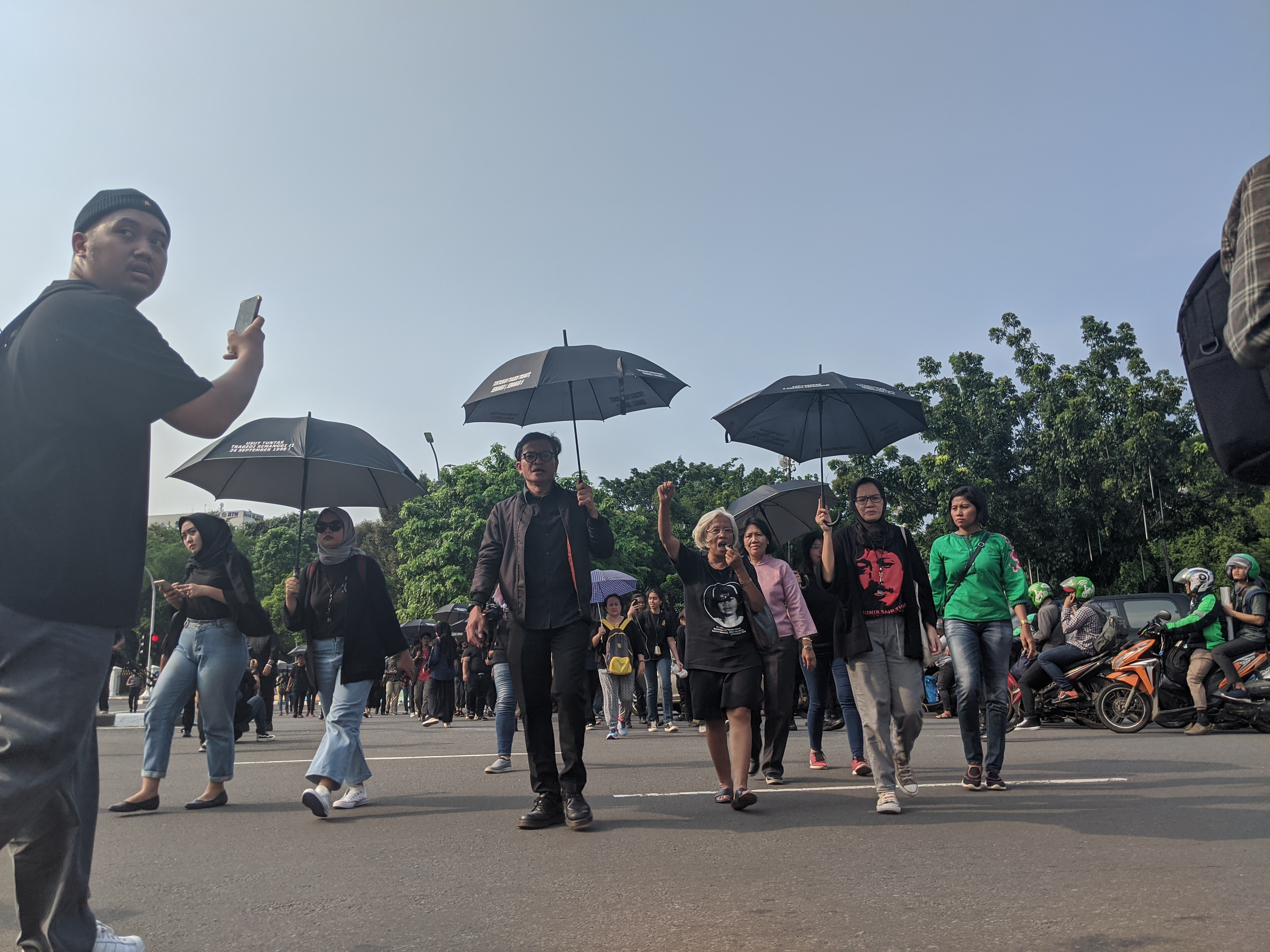 Maria Catarina Sumarsih, ditemani Usman Hamid (kiri) dan Yati Andriyani (kanan) tengah menuju tempat Aksi Kamisan.